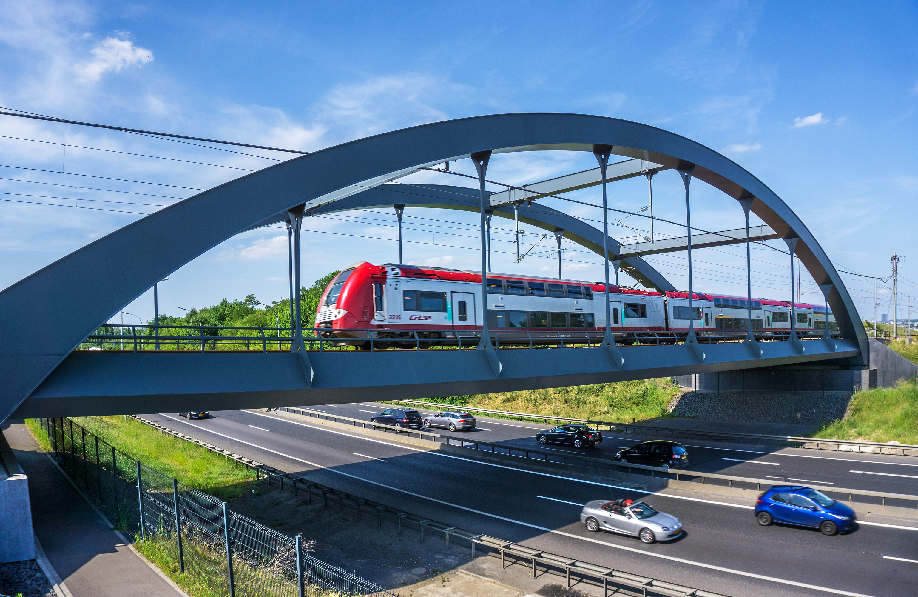 Railway bridge over the highway A6 neat the Croix de Cessange